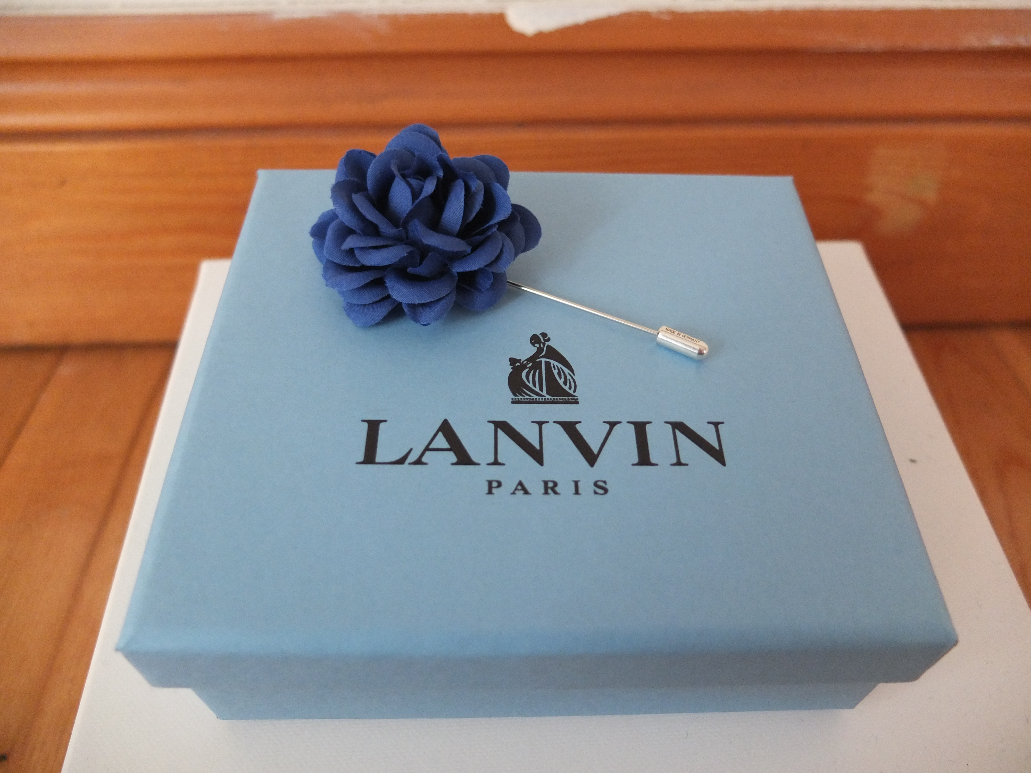 Signture gift packaging from French fashion brand Lanvin